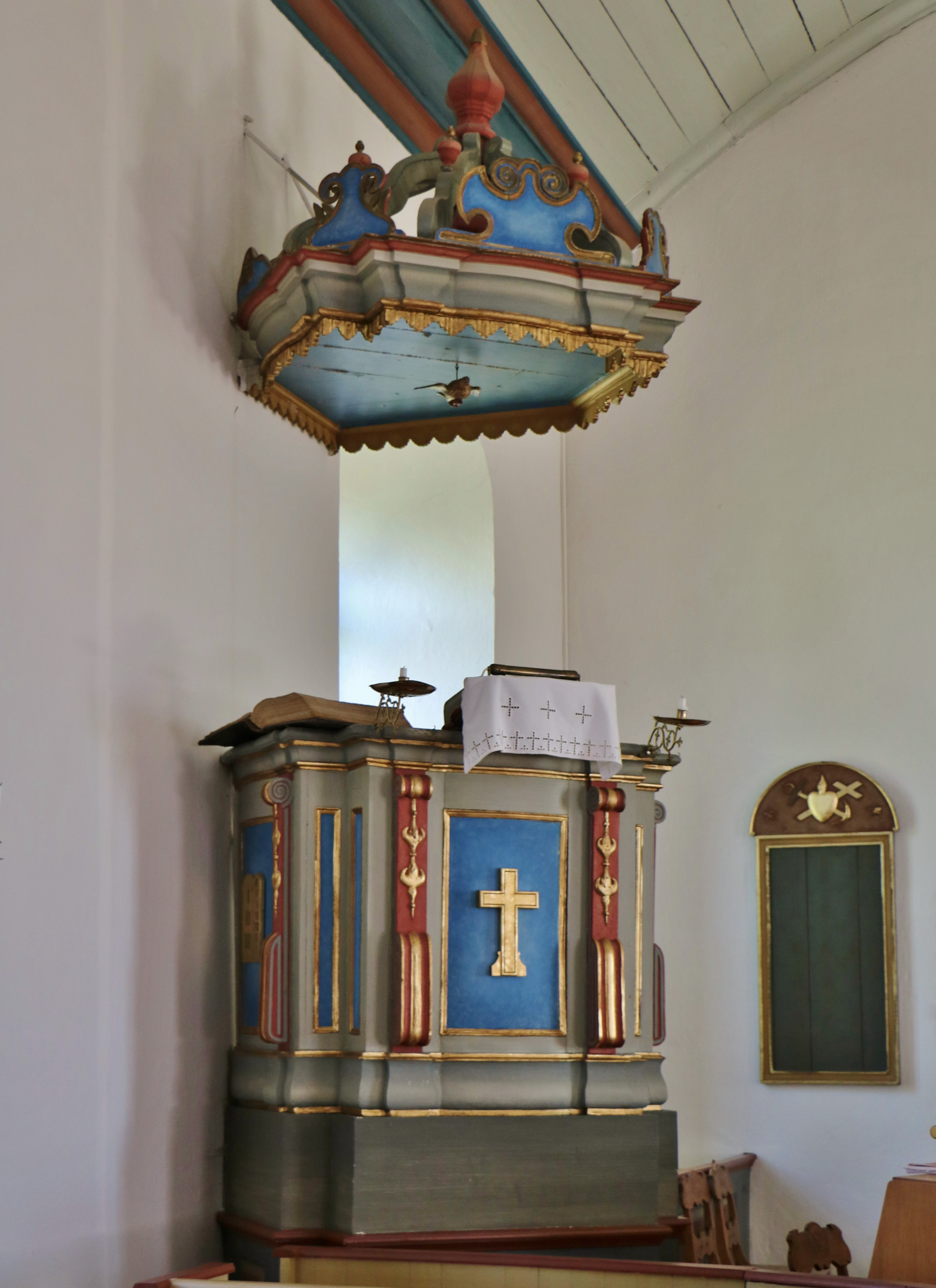 Segerstad Church.The pulpit